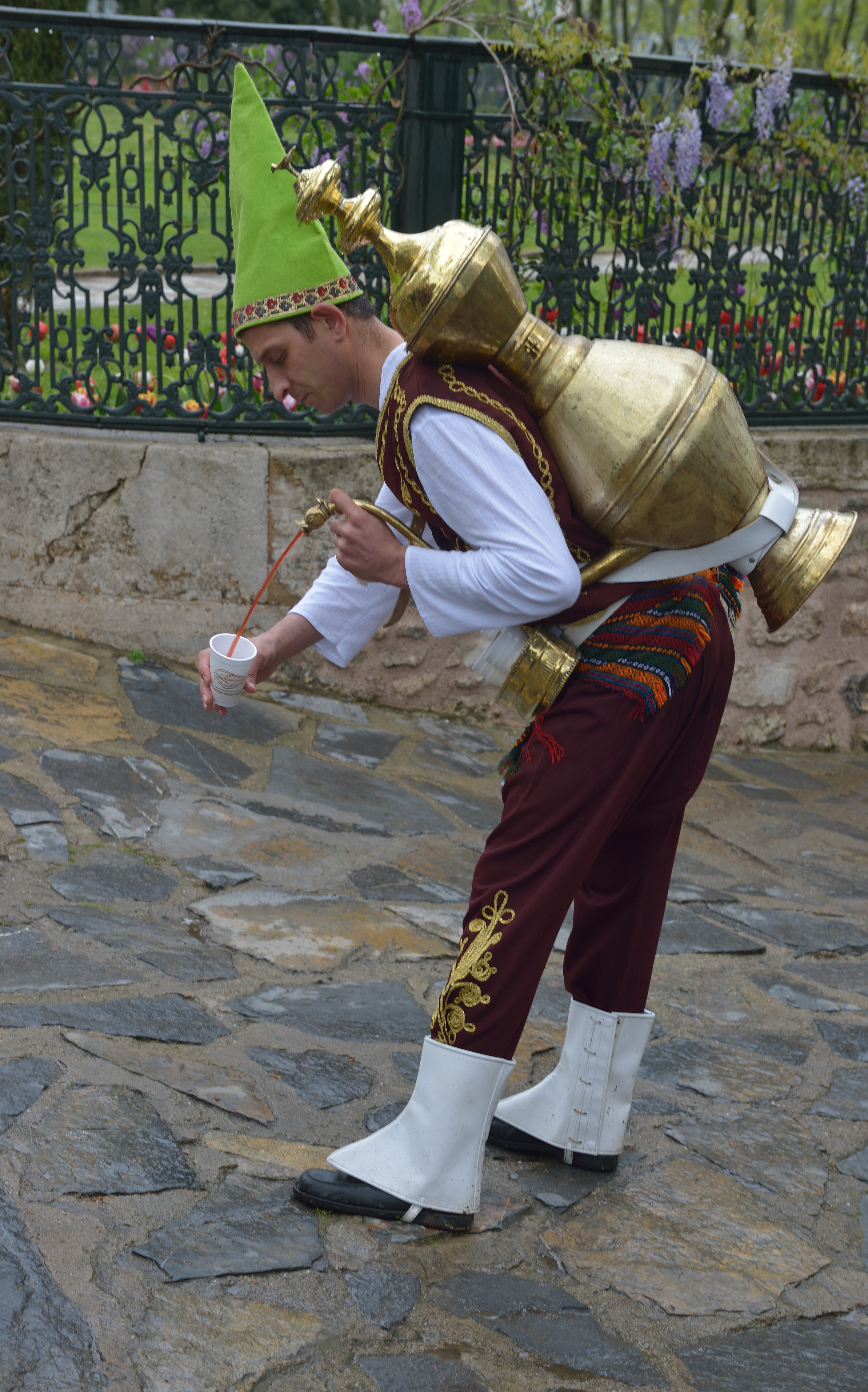 Samovar bearer in national costume in Istambul, Turkey